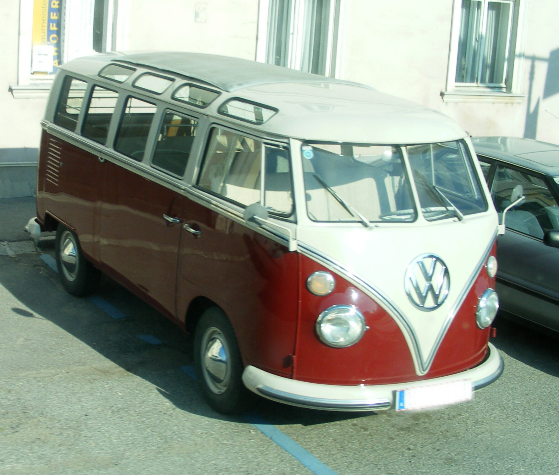 Volkswagen T1 somewhere in lower Austria